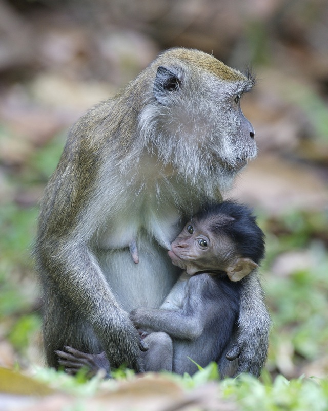 Long-tailed macaques (Macaca fascicularis) Central Catchment Area, Singapore 30th. March 2008 One of group found wandering in the reservoir area amongst signs saying "Do not feed the monkeys, they have enough to eat in the forest". Unfortunately, kind souls persist in feeding them despite the threat of a $400/- fine. Guess they will never learn. Soon these macaques will be bold enough to forage in houses bordering the reserve and complaints will come to National Parks and a culling party will have to be formed, So much for kindness. 690V3067